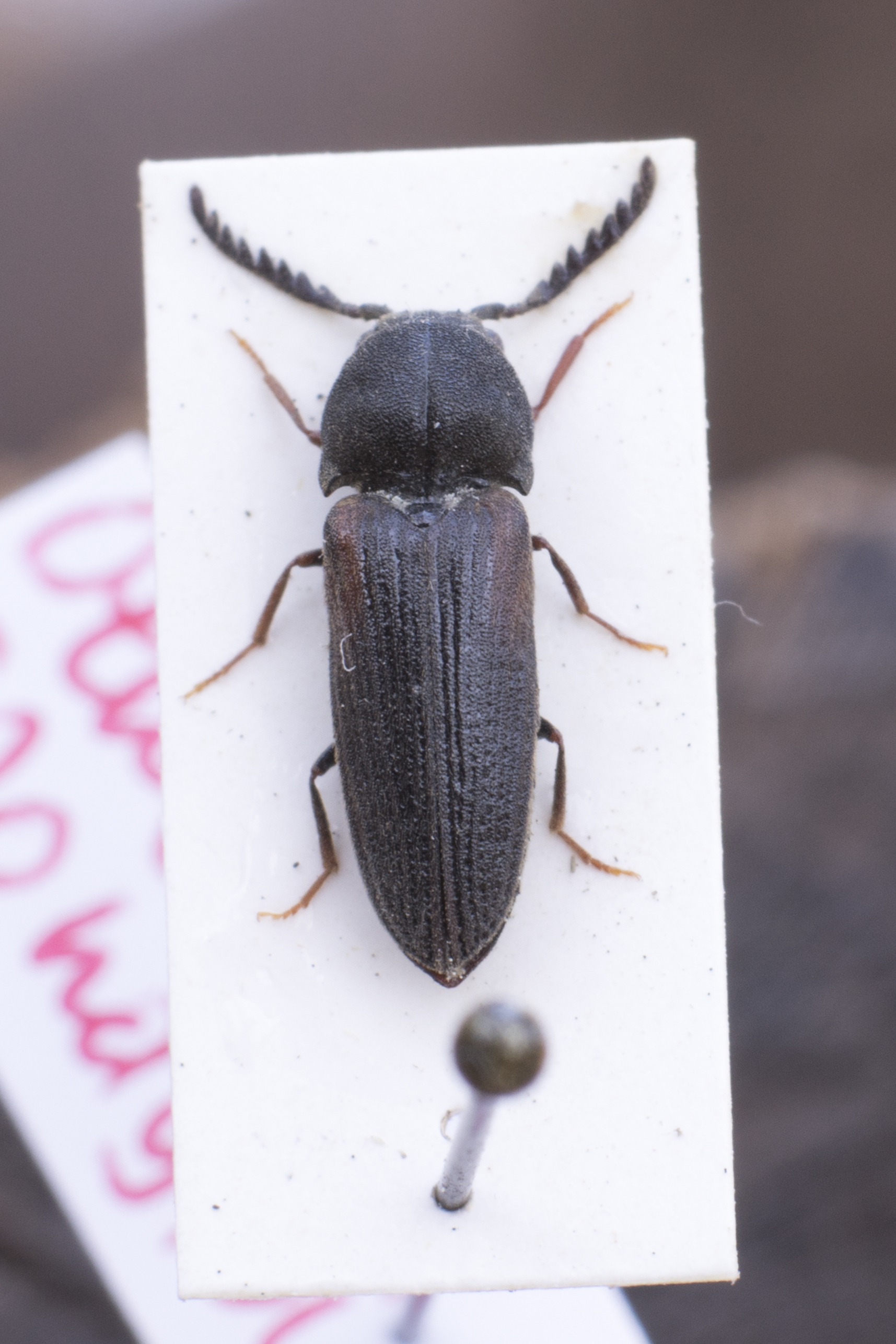 Otho sphondyloides